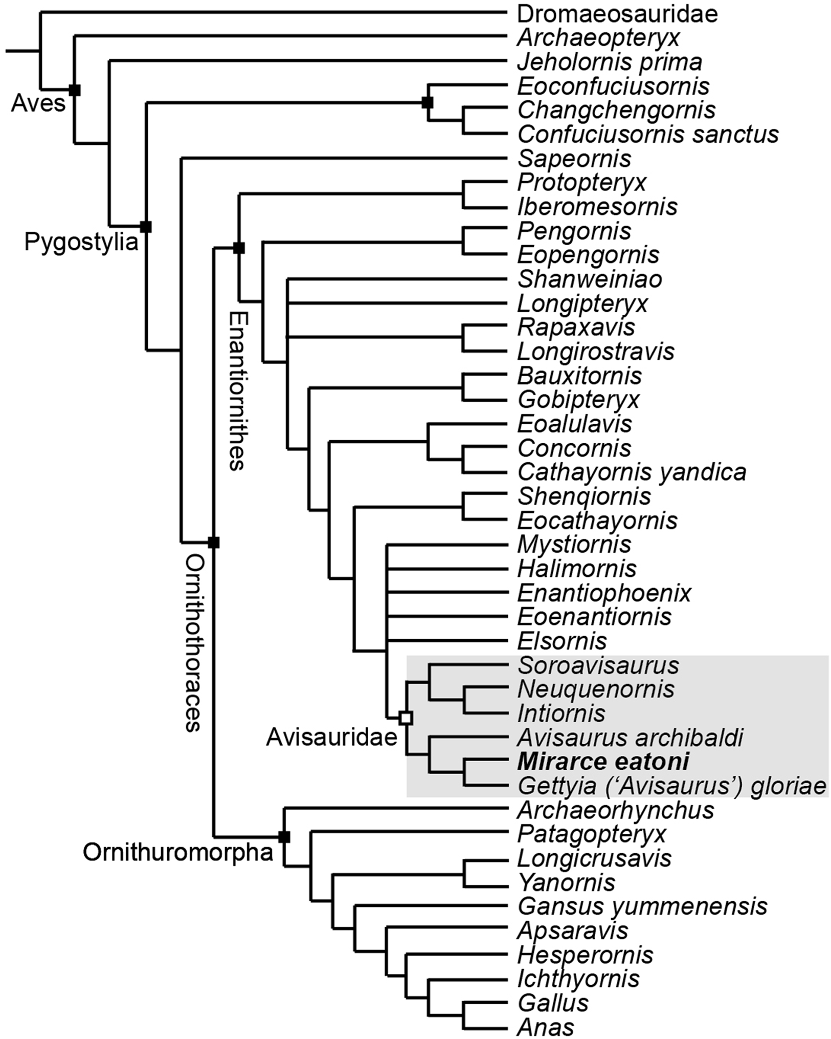 A cladogram depicting the hypothetical phylogenetic position of Mirarce eatoni. This is the strict consensus tree (Consistency Index = 0.453; Retention Index = 0.650) produced from six most parsimonious trees (score of 25.1; k-value of 13). These six trees differed only in the relative placement of the five enantiornithines most closely related to the Avisauridae, which here form a polytomy with this clade